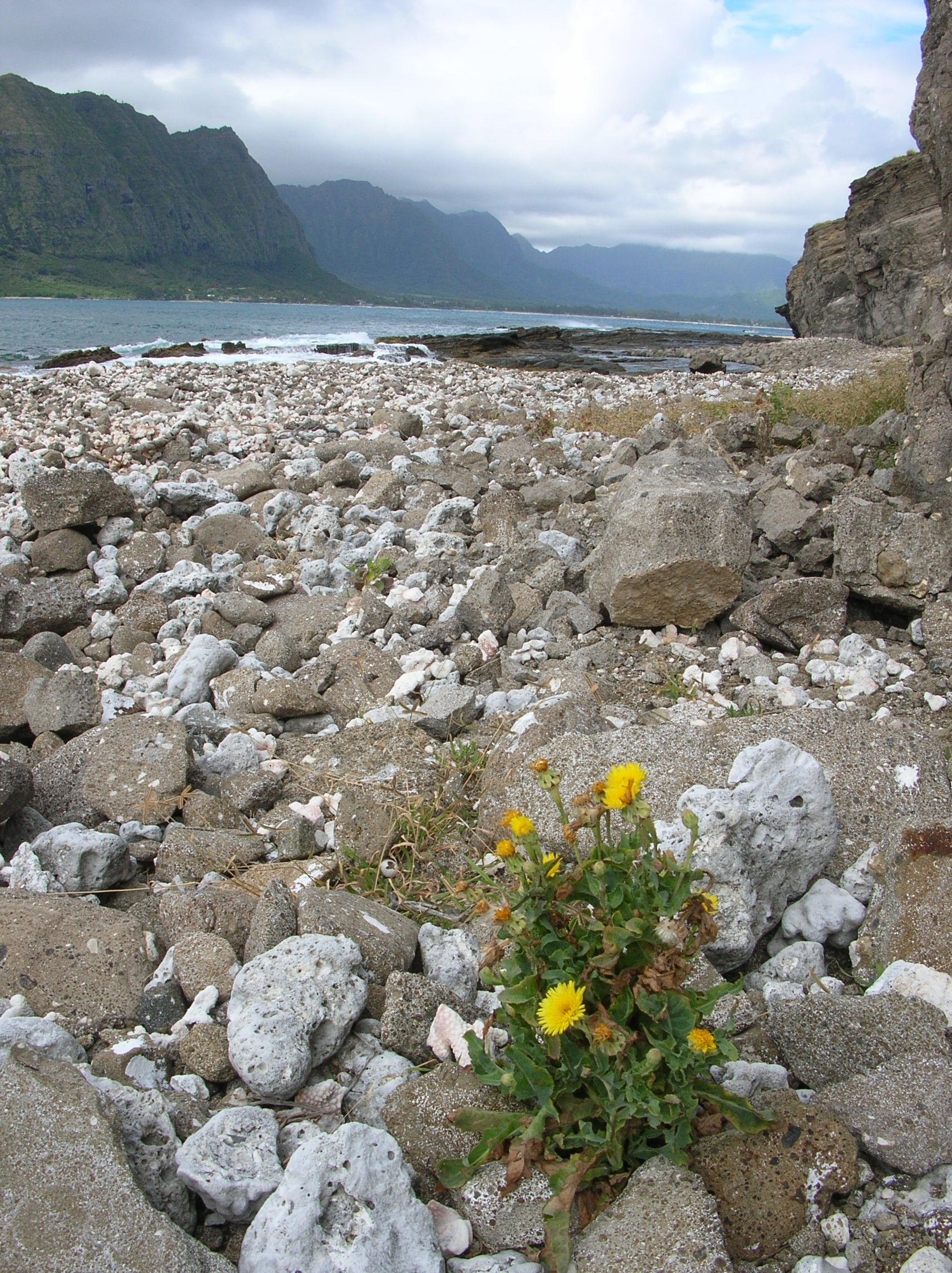 Reichardia picroides (habit). Location: Oahu, Manana